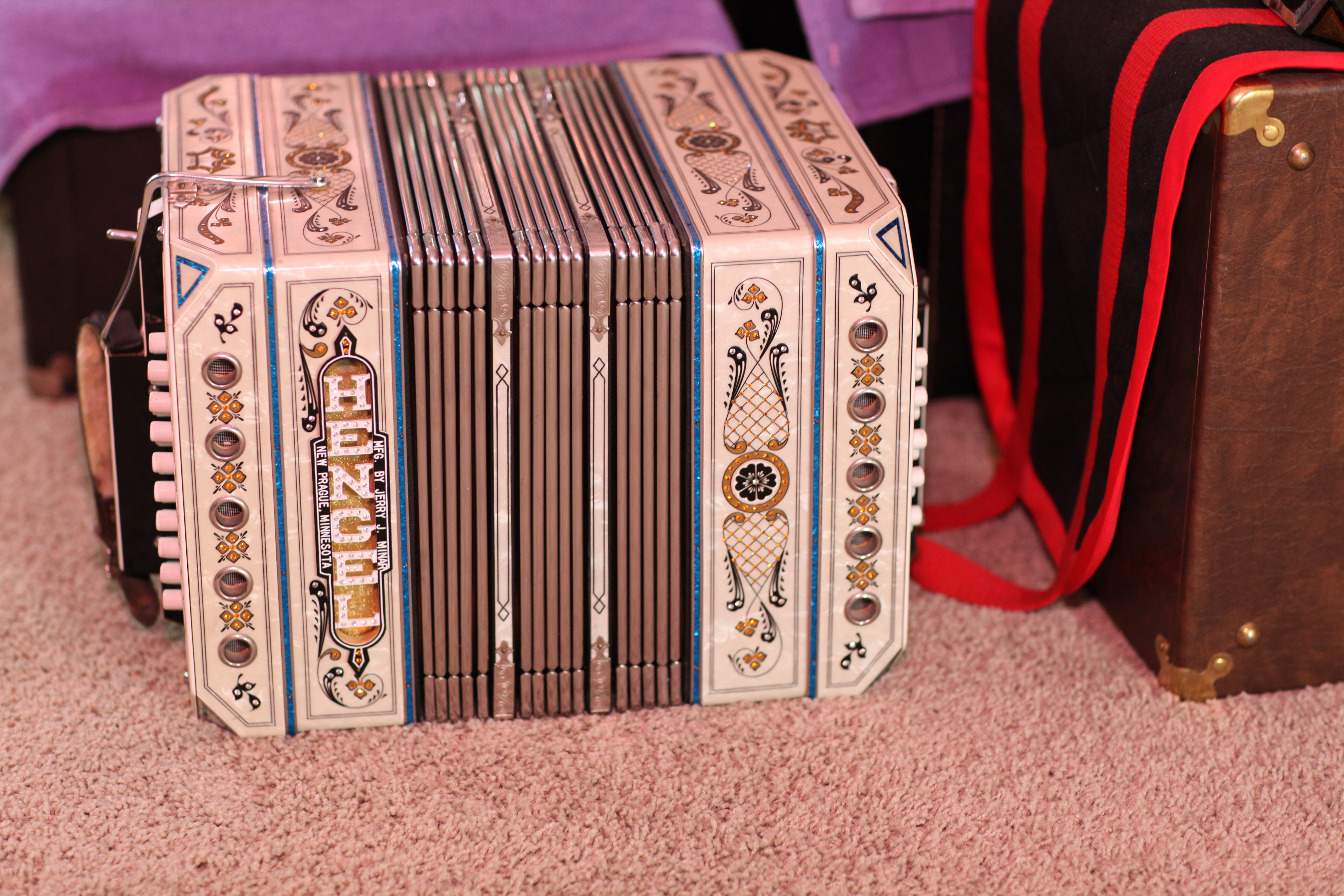 A beautiful (quad reed) chemnitzer concertina.